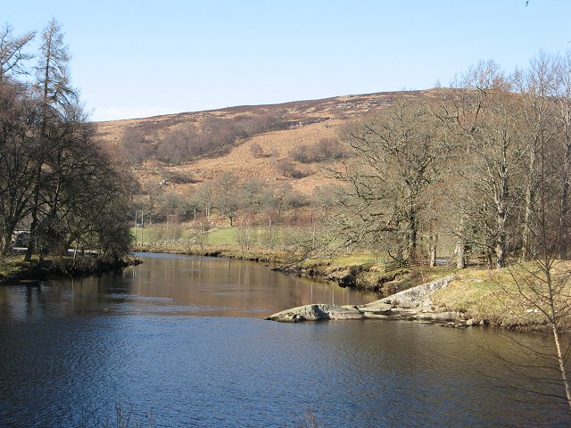 River Gaur Upstream from the bridge.